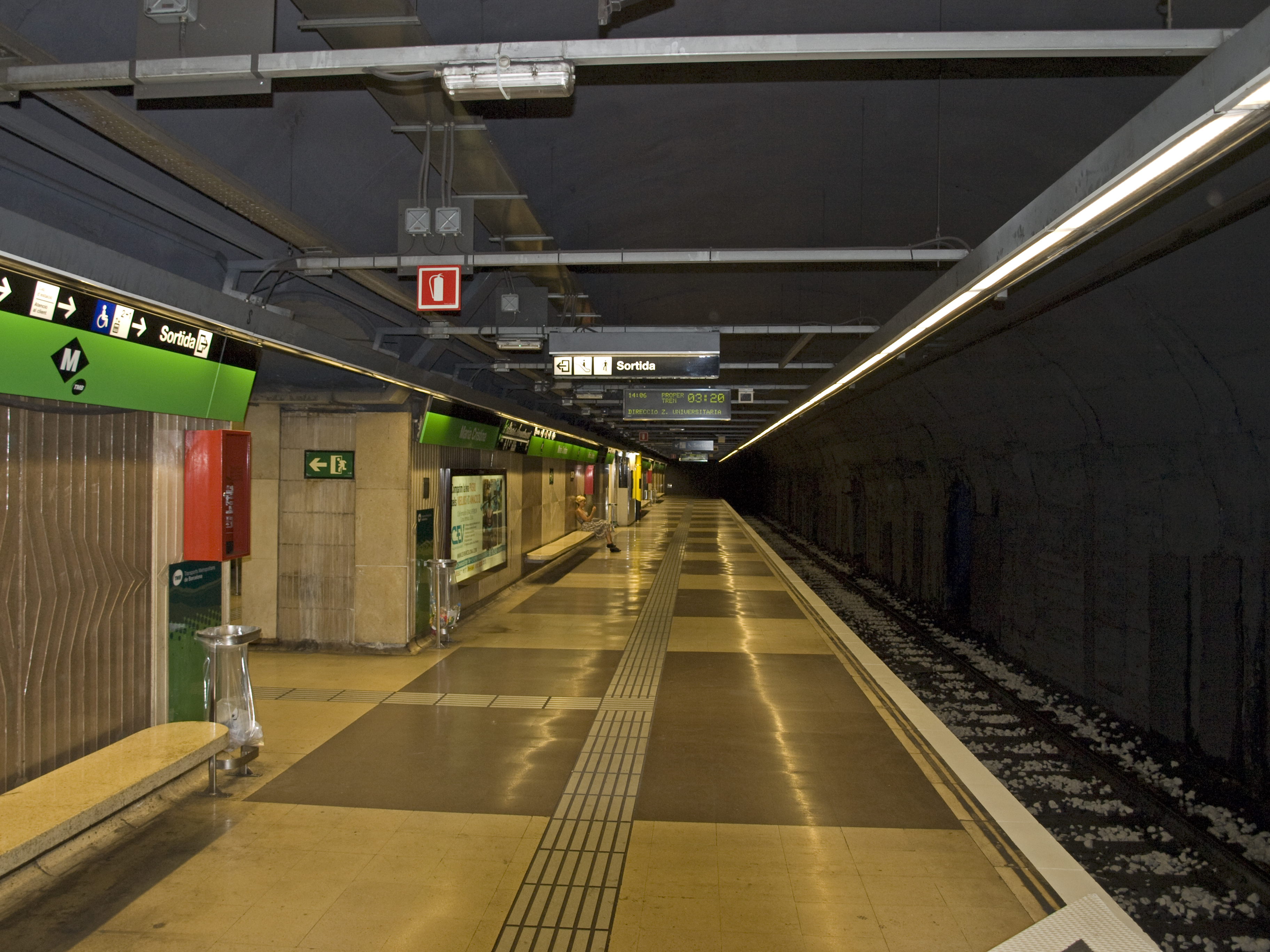 Maria Cristina station, line L3, westbound platform, Barcelona Metro